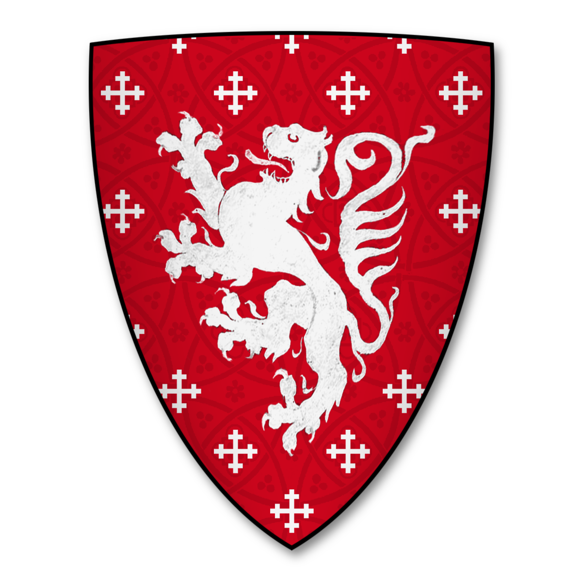 Coat of Arms of Roger de la Ware, as blazoned in the Caerlaverock Poem (K-023: "Rogers de la Ware") "Ki les armes ot vermellettis O blonc lÿoun e croissellettes." Arms: Gules, crusily and a lion rampant argent.